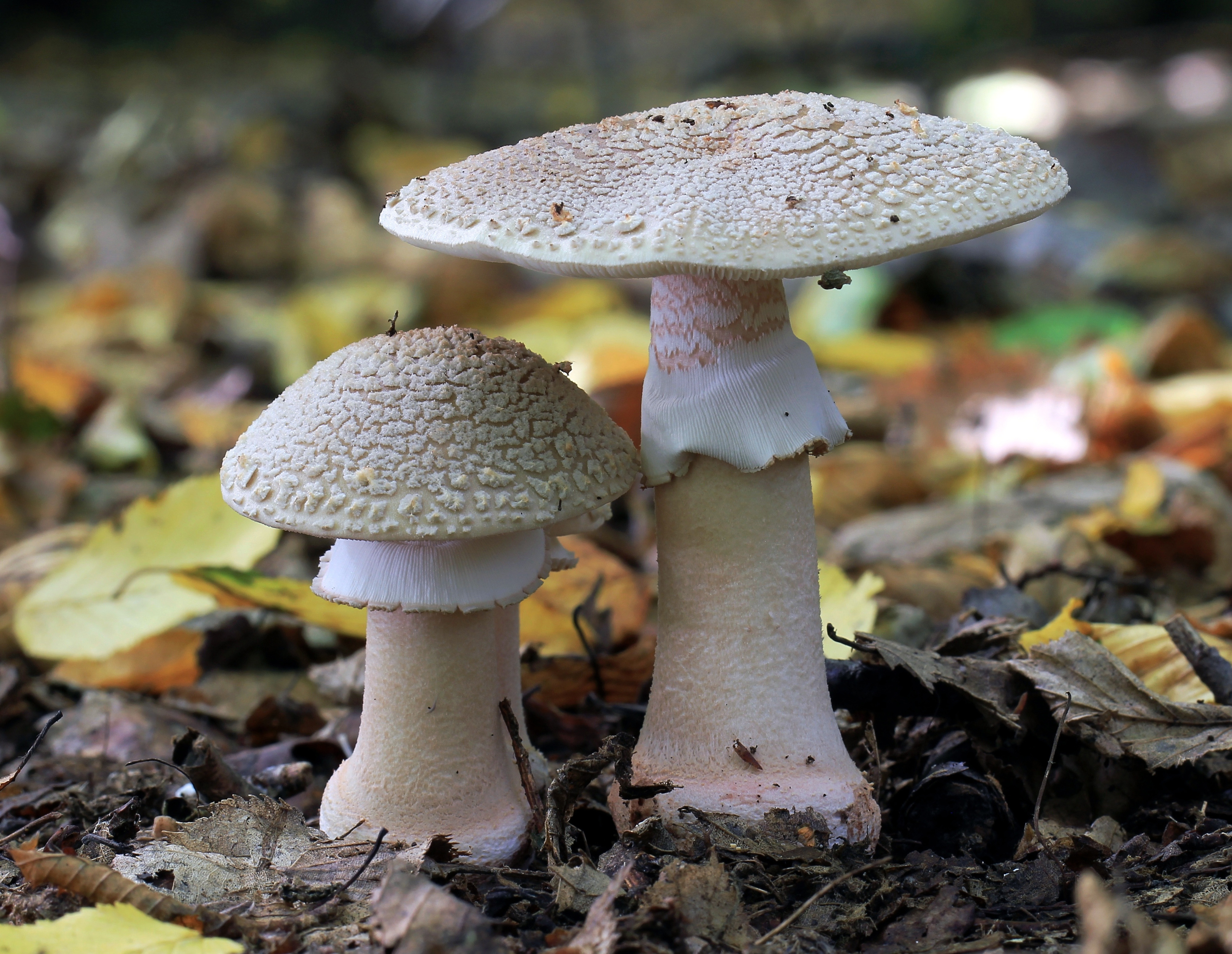 Amanita rubescens, The Blusher, taken in Wormley Wood, Hertfordshire, UK.